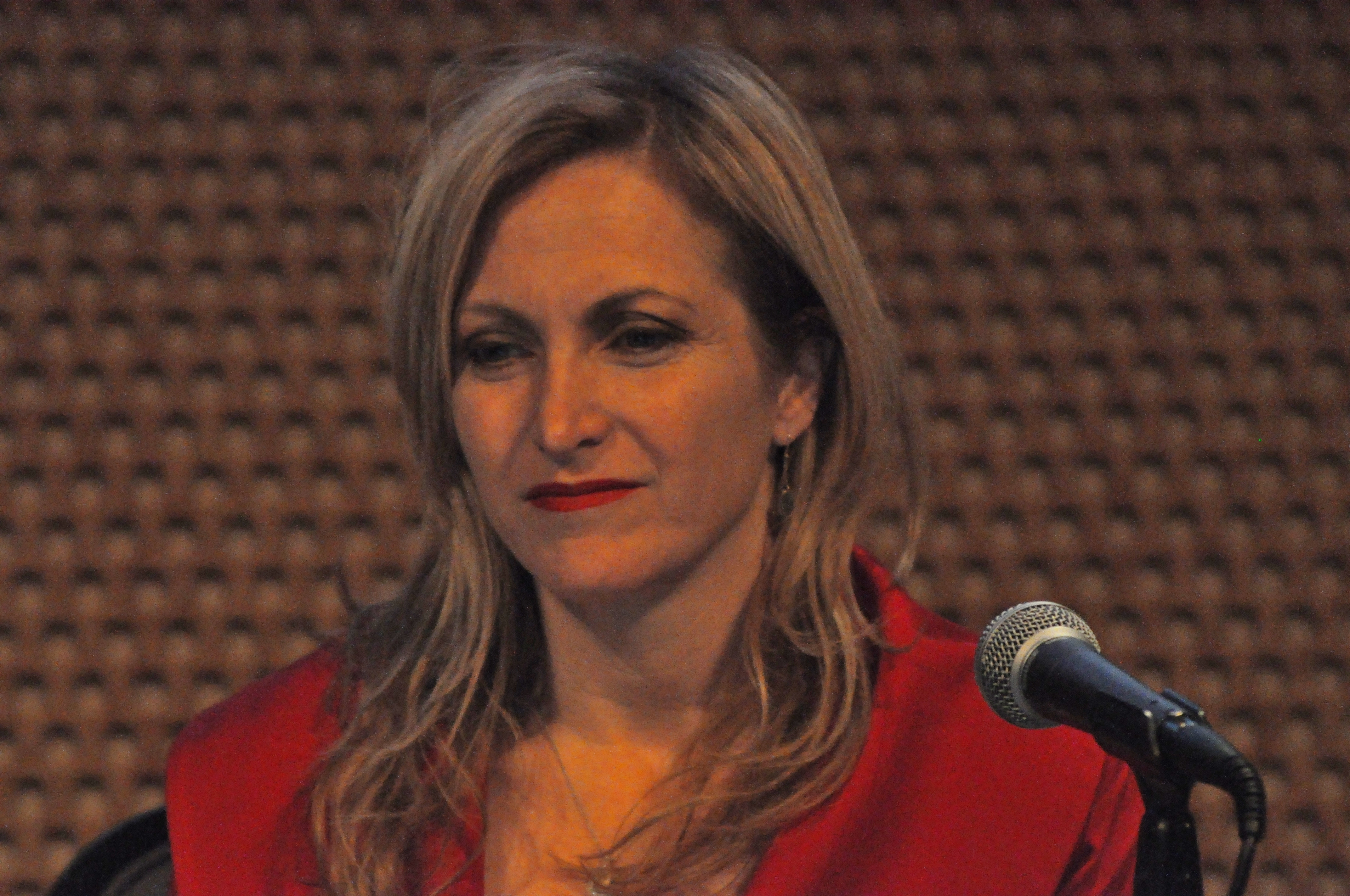 Wendy Fonarow, anthropology professor at Glendale College, music industry vet, "the Professor of Indie", moderating the "Rock Meldings" panel, 2010 Pop Conference, EMPSFM, Seattle, Washington.